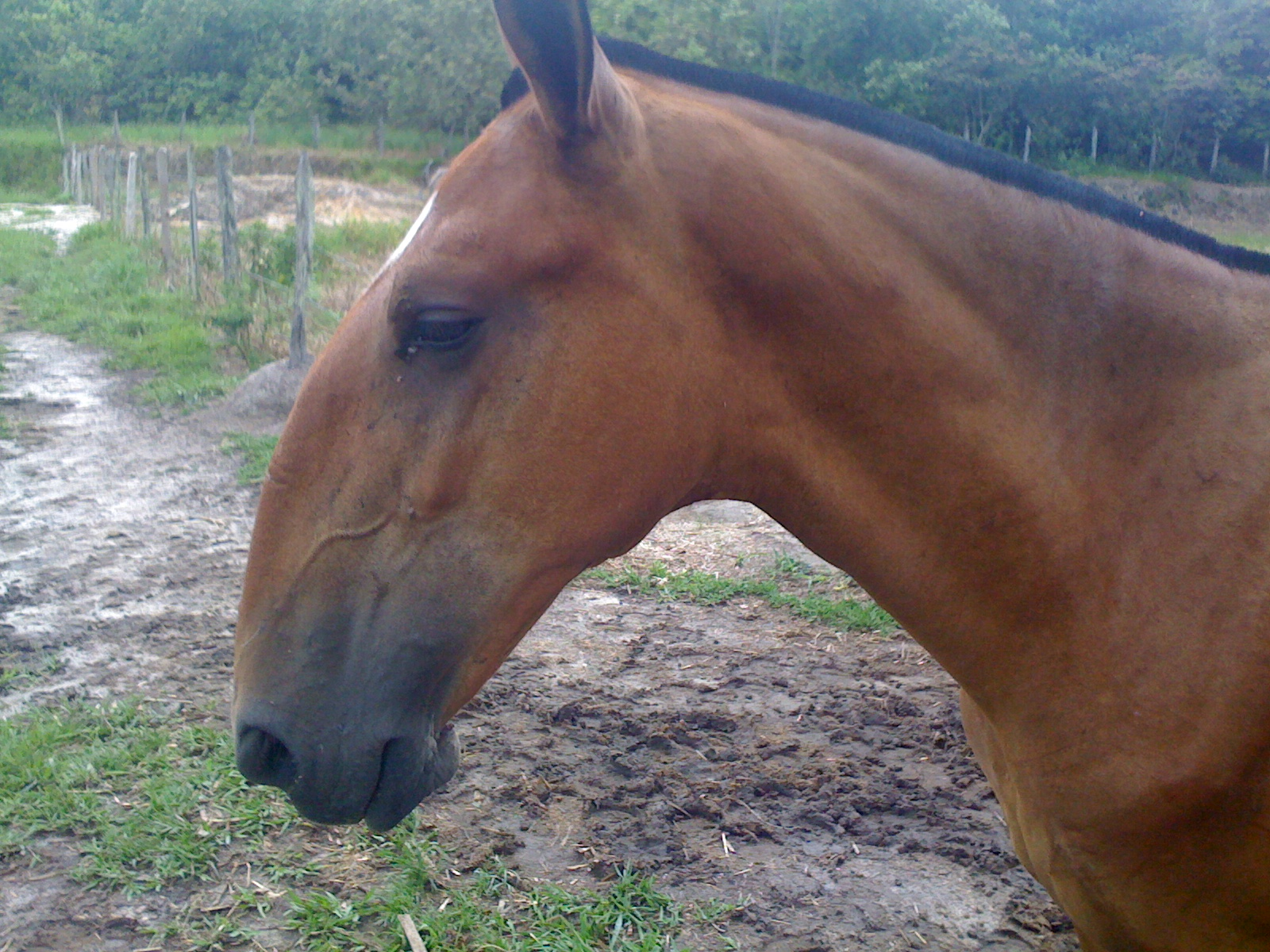 example of head profile that is over-developed "hyper-convex"